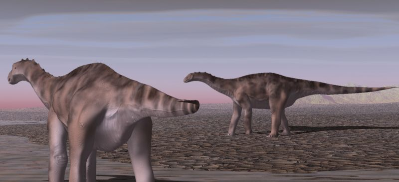 Dicraeosaurus hansemanni, Late Jurassic of Tanzania. Digital.